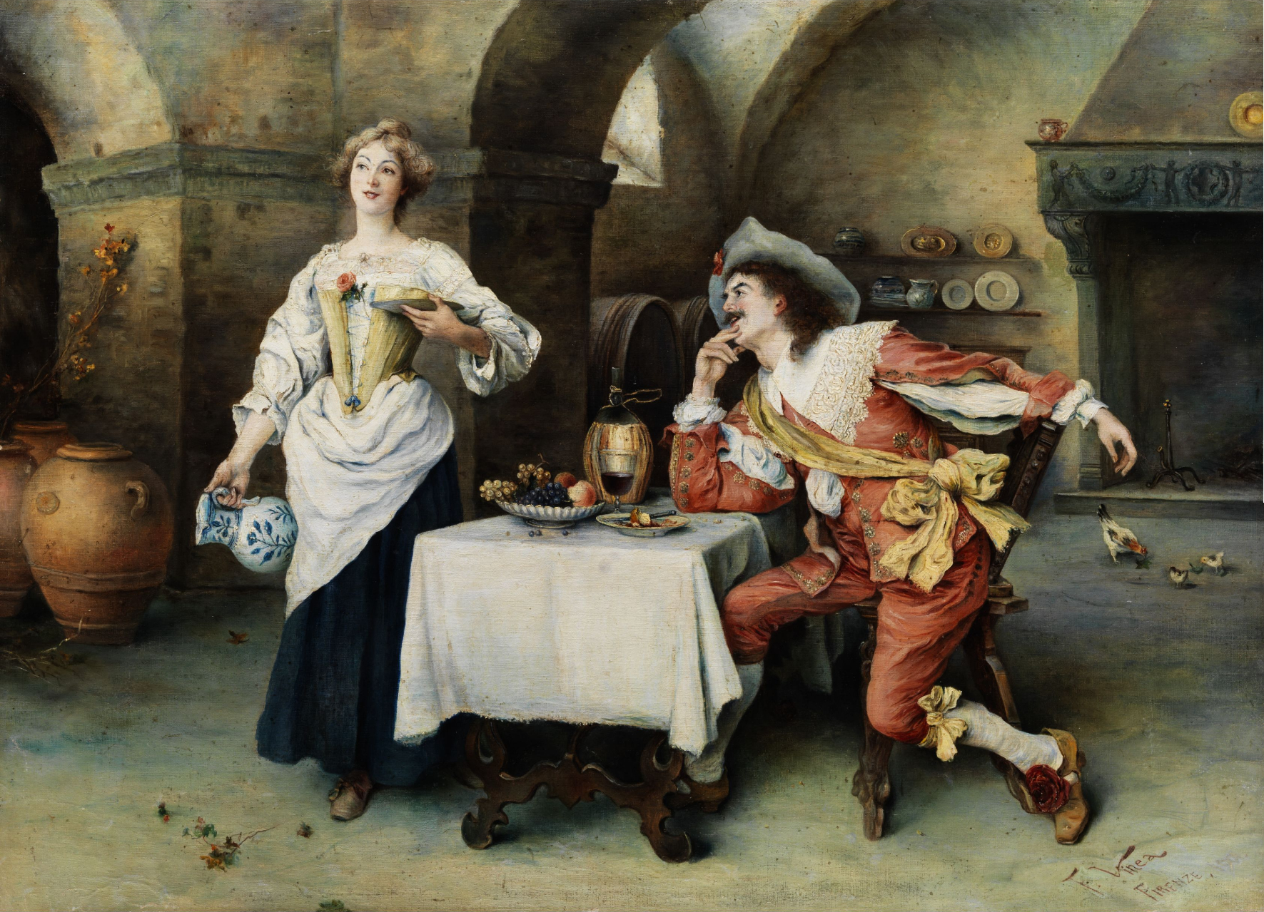 The courtly guest in the wine cellar.label QS:Len,"The courtly guest in the wine cellar." label QS:Lde,"Der höfische Gast im Weinkeller."